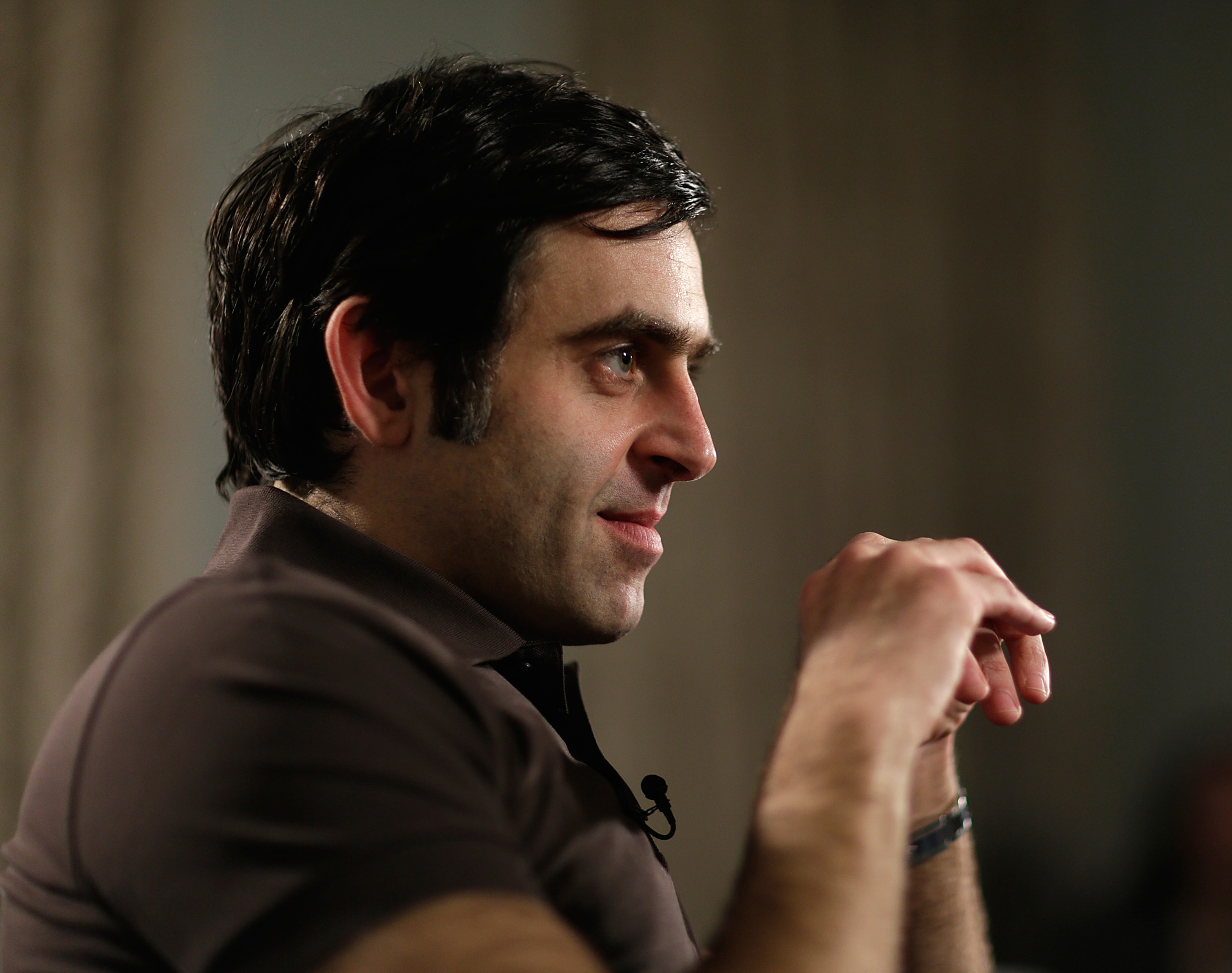 Snooker legend Ronnie O'Sullivan.